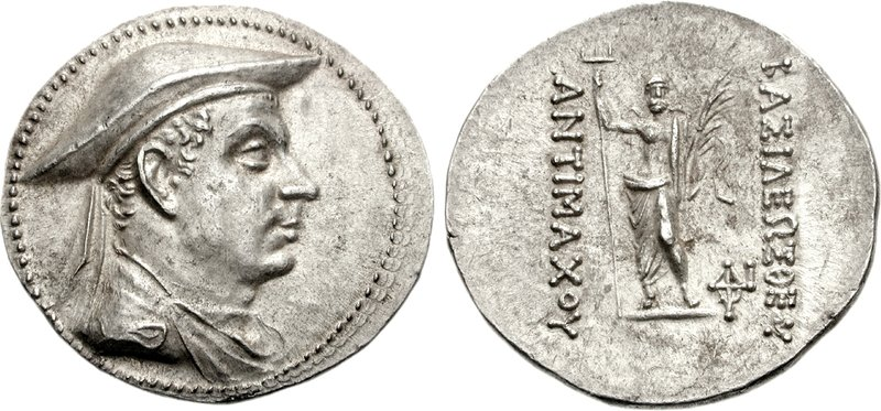 Coin of the Baktrian King Antimachos I